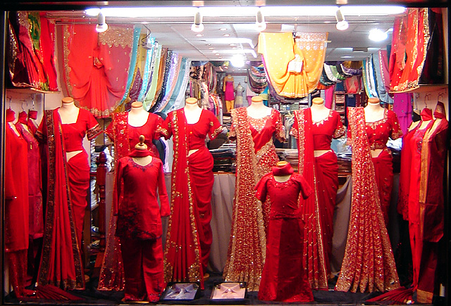 Wedding dresses and other Asian couture on Whitechapel High Street, Tower Hamlets, London. 28 November 2005. Photographer: Fin Fahey.